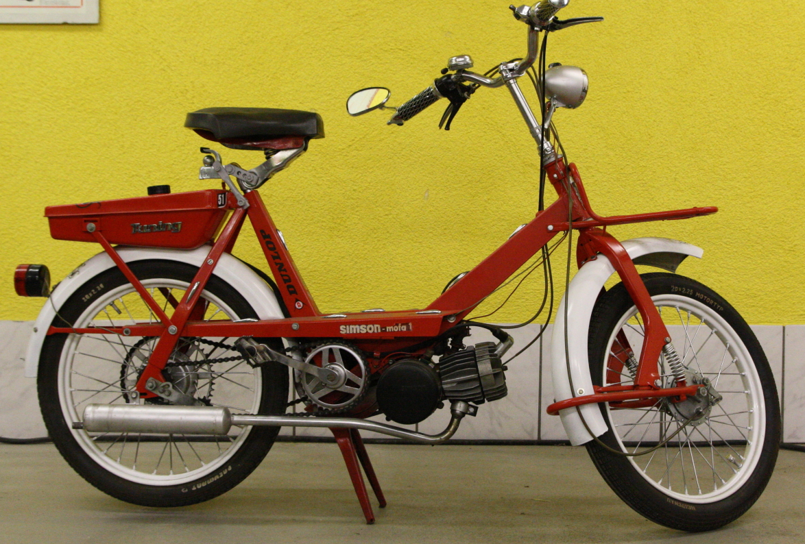 Mofa from GDR, produced 1970-1972